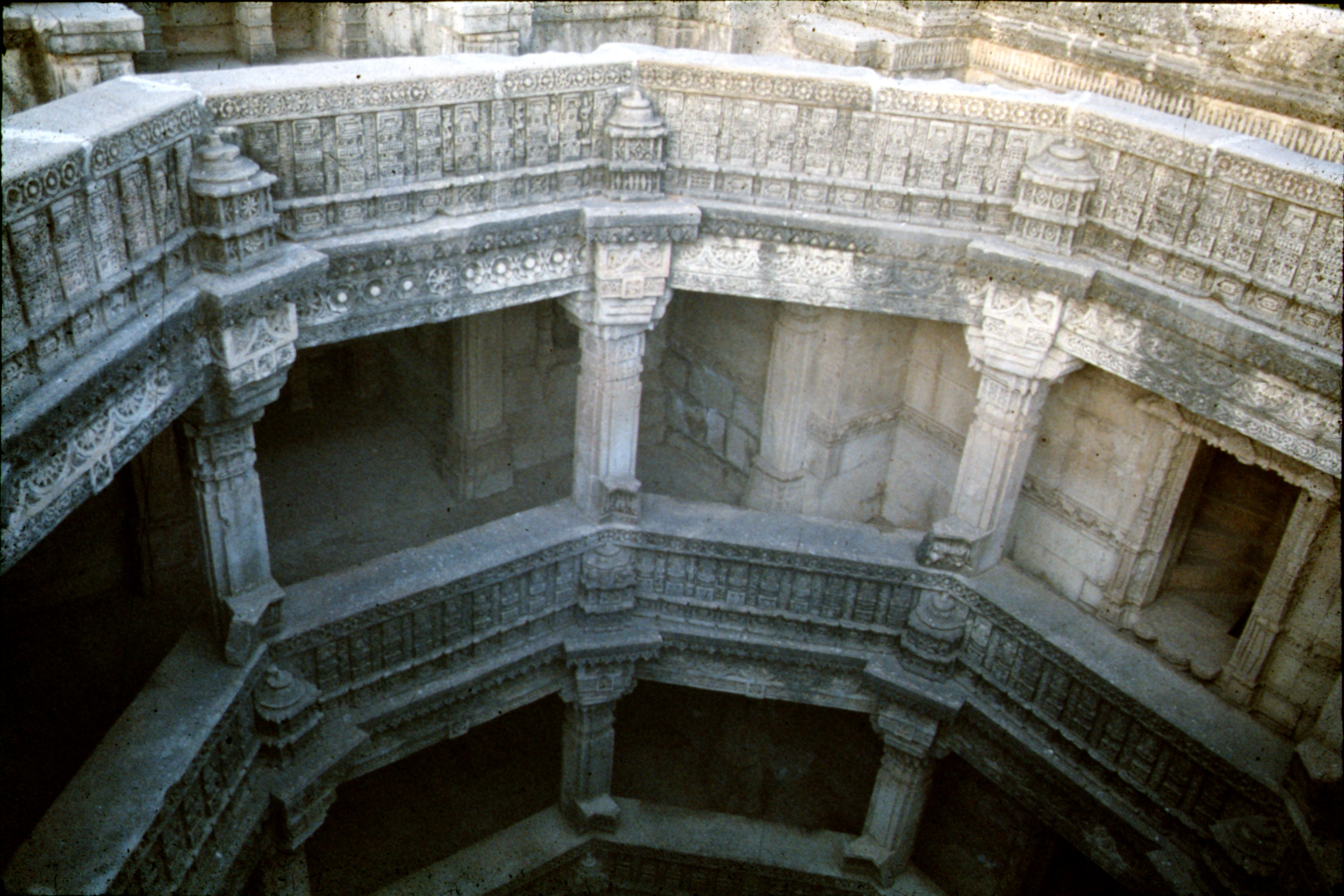 Adalaj step-well, near Ahmedabad, Gujarat, India.